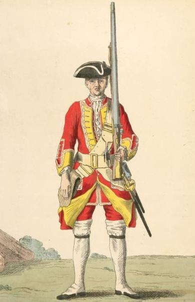 Soldier of the 8th regiment (1742)